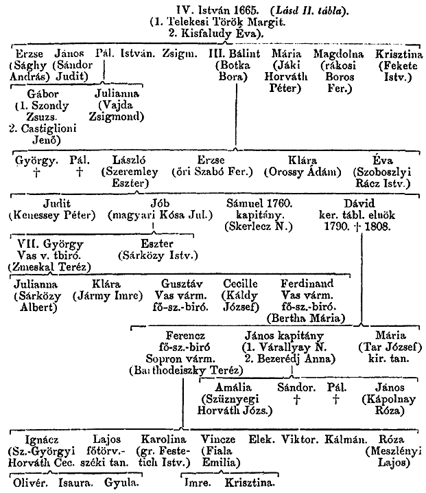 Chernel family tree III.